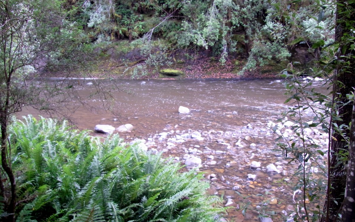 Hellyer River, Hellyer Gorge with Blechnum nudum. Tasmania